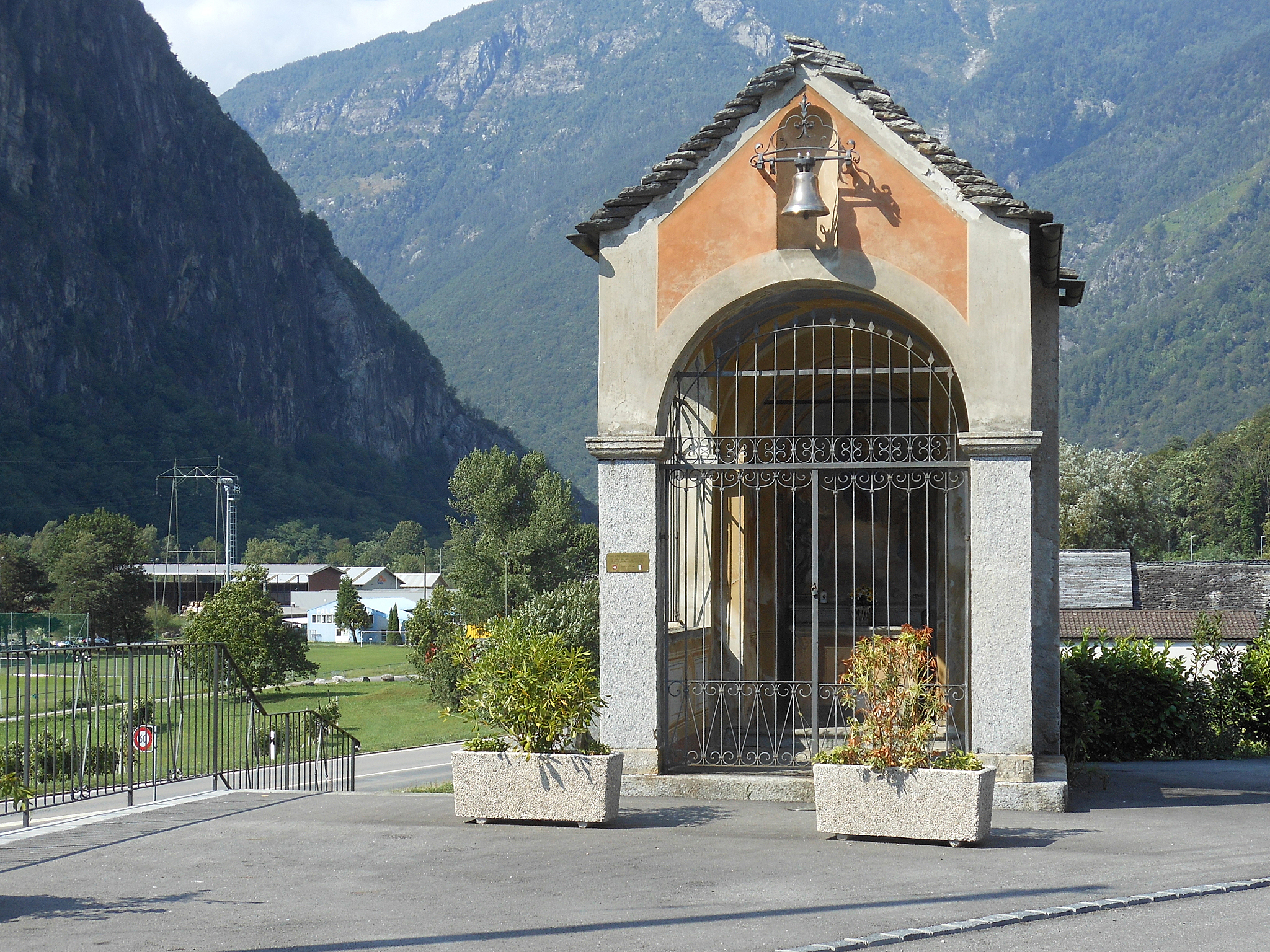 Chapel in Avegno.